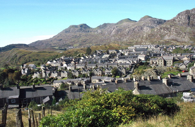 Blaena' and the Moelwynion hills from the quarrymen's path to Bowydd Quarry